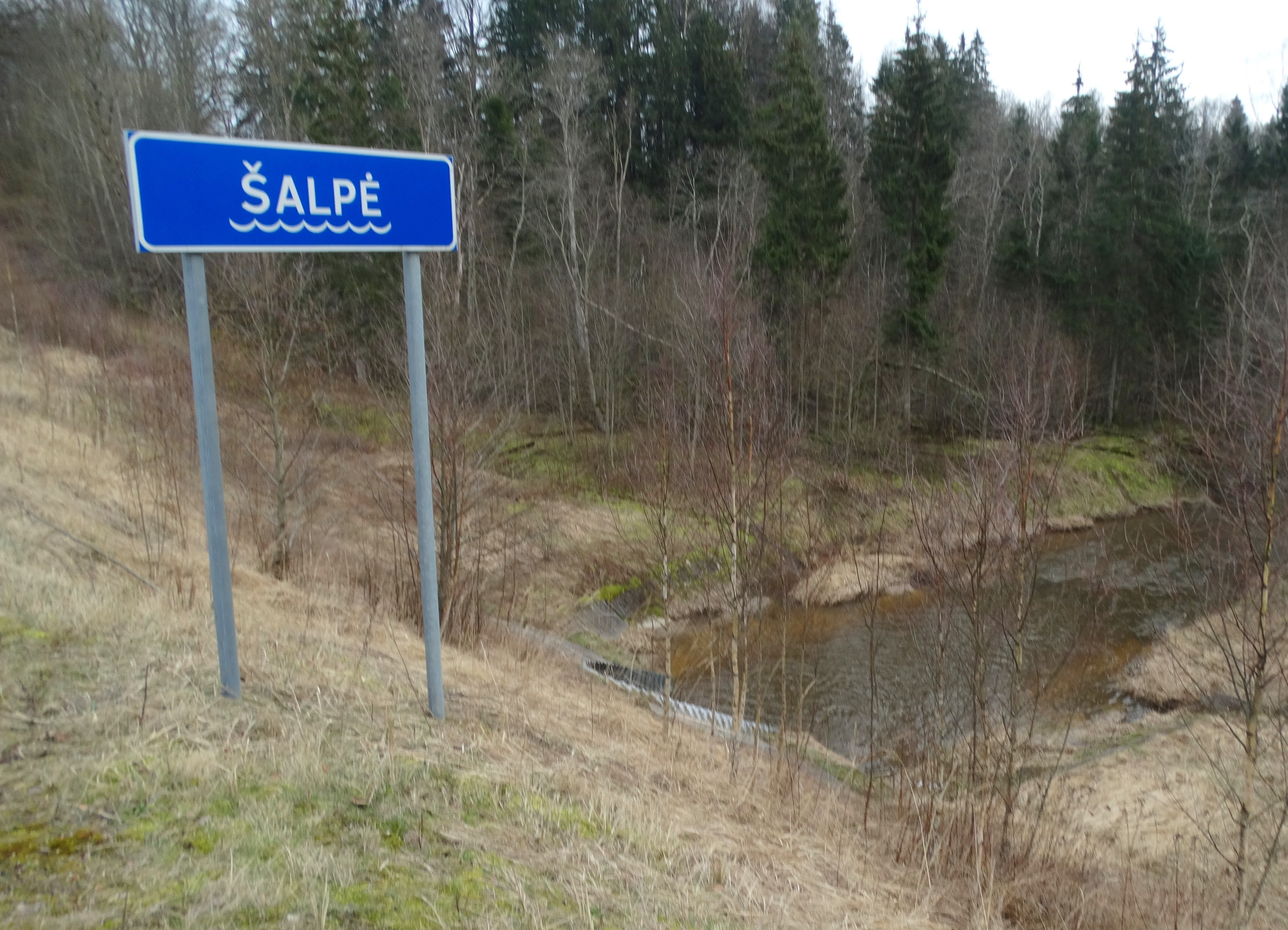 Šalpė rivulet, Klaipėda District. Lithuania